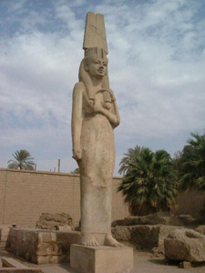 The colossal statue of Meritamen in the temple of Min. Limestone. Ahmim.